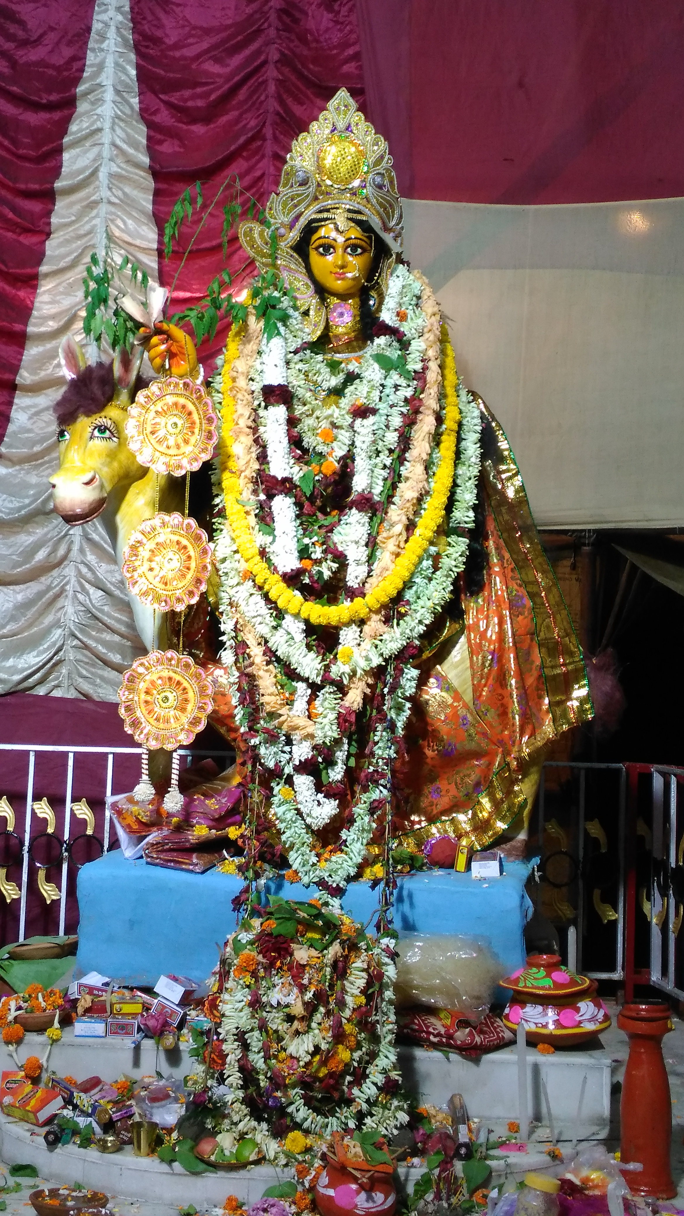 Shitala, Hindu Goddess of chicken pox and healing